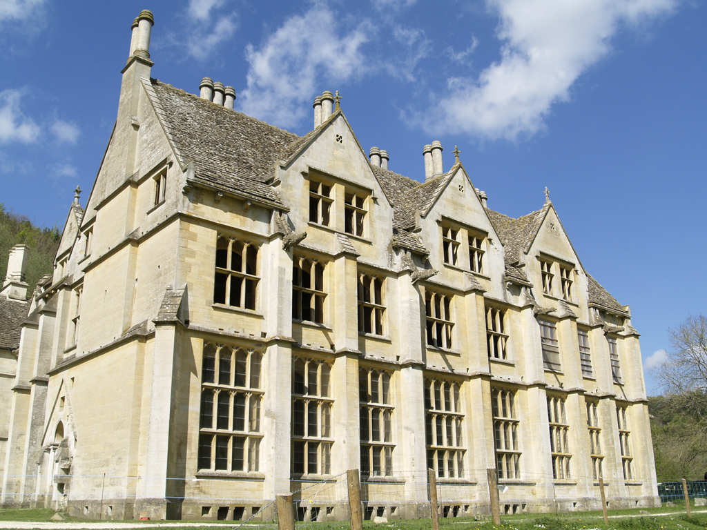 View of Woodchester Mansion showing the south face.